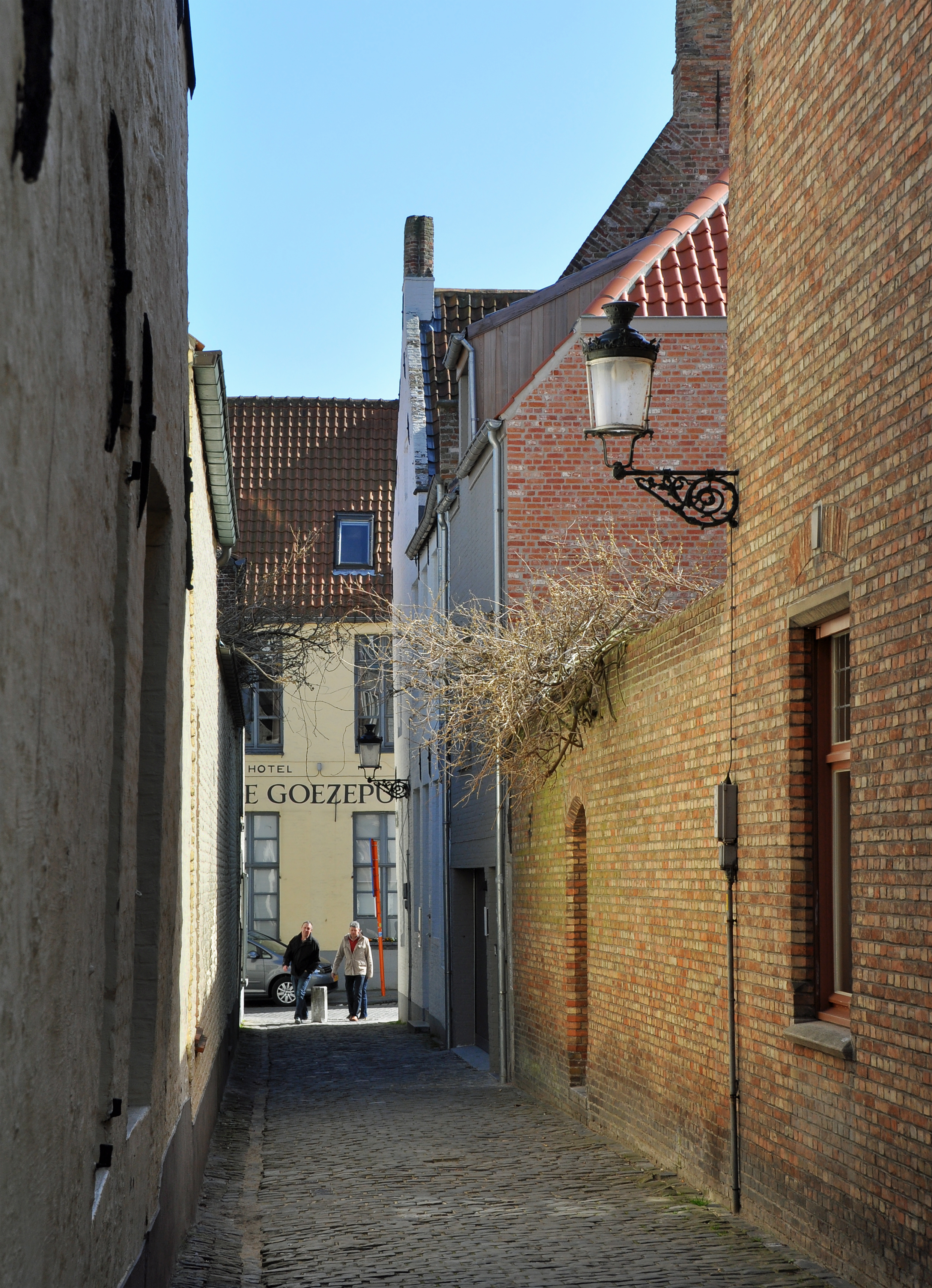 Bruges (Belgium): Oranjeboomstraat